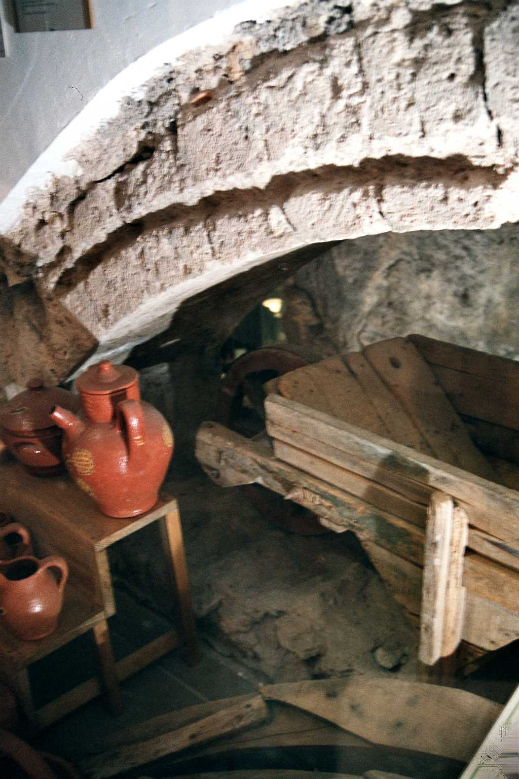 Vetralla, Museo della Città e del Territorio, sezione Ceramica